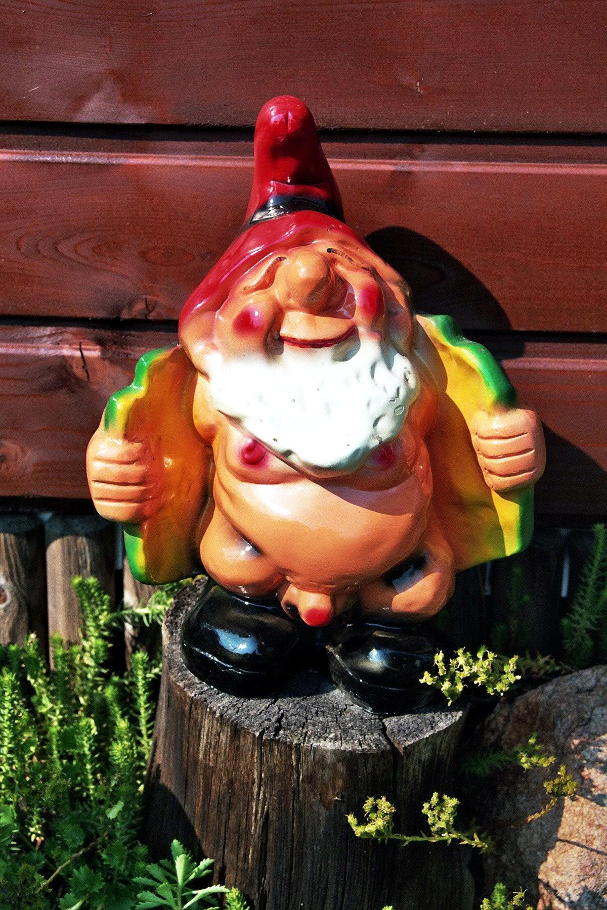 This image shows a exhibitionistic garden gnome.